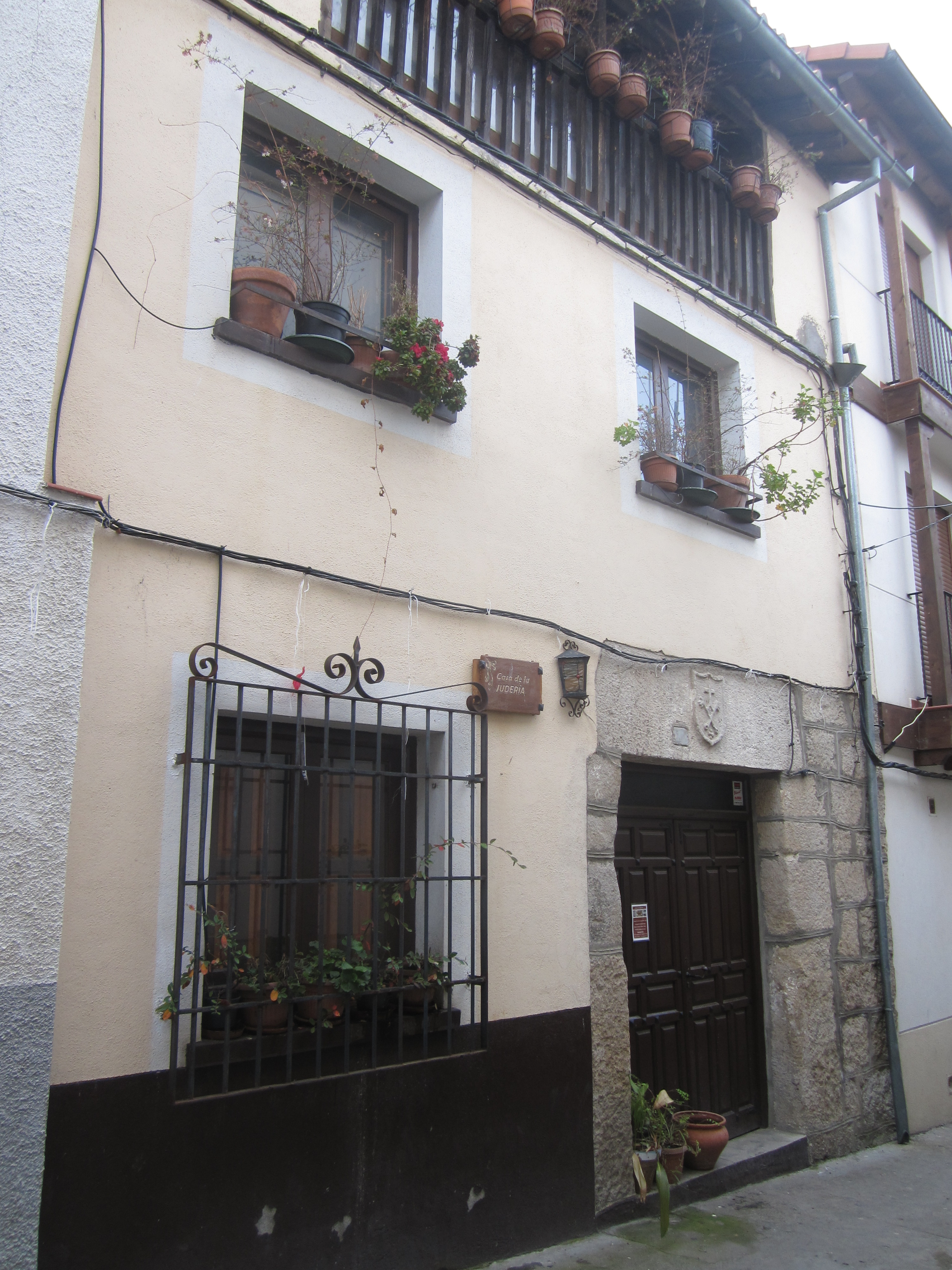 Jewish's House in Candeleda (Ávila), Spain.